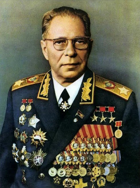 Cropped image of Soviet Defense Minister, Dmitry Ustinov